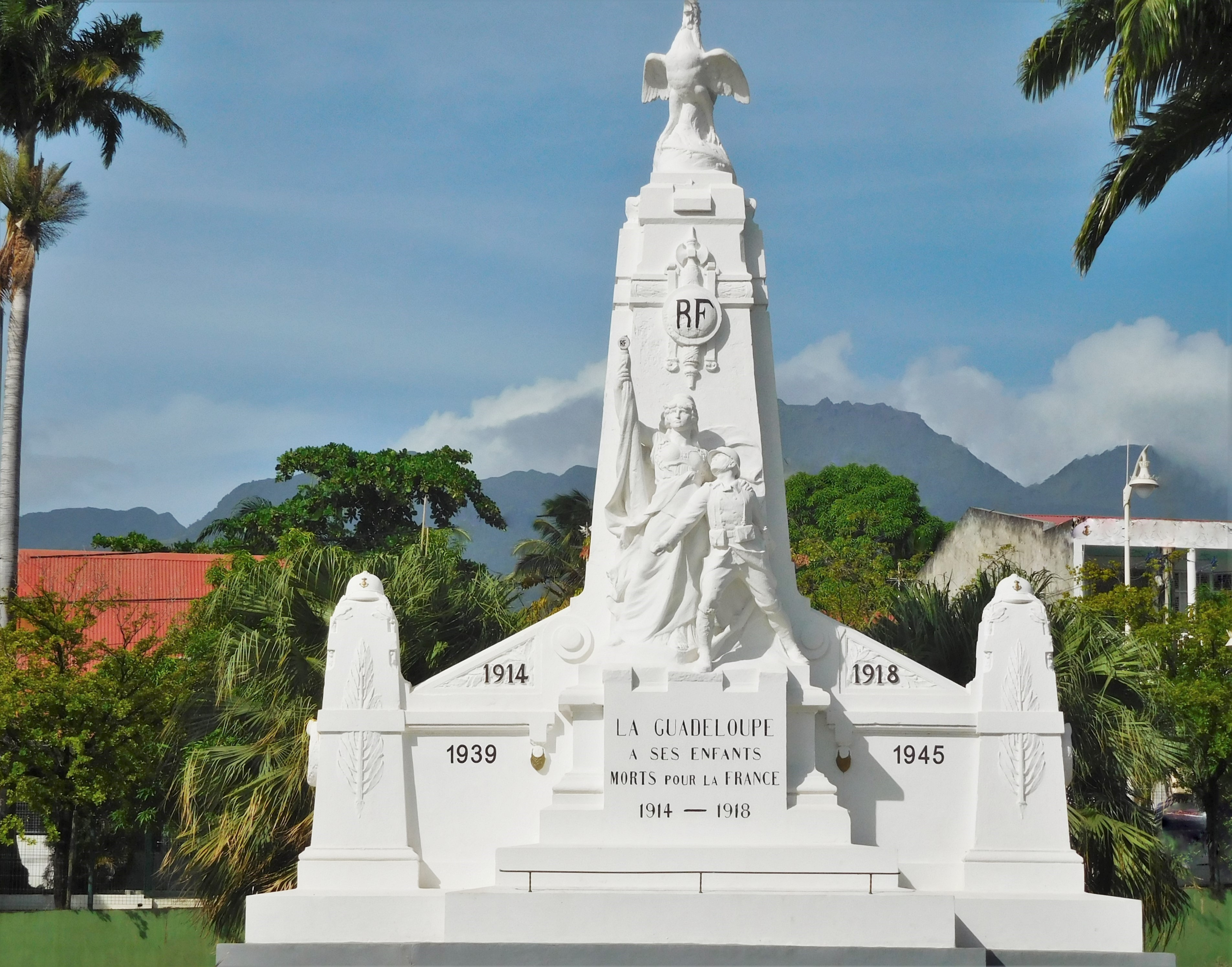 Cenotaphs to war dead at Basse-Terre, Guadeloupe